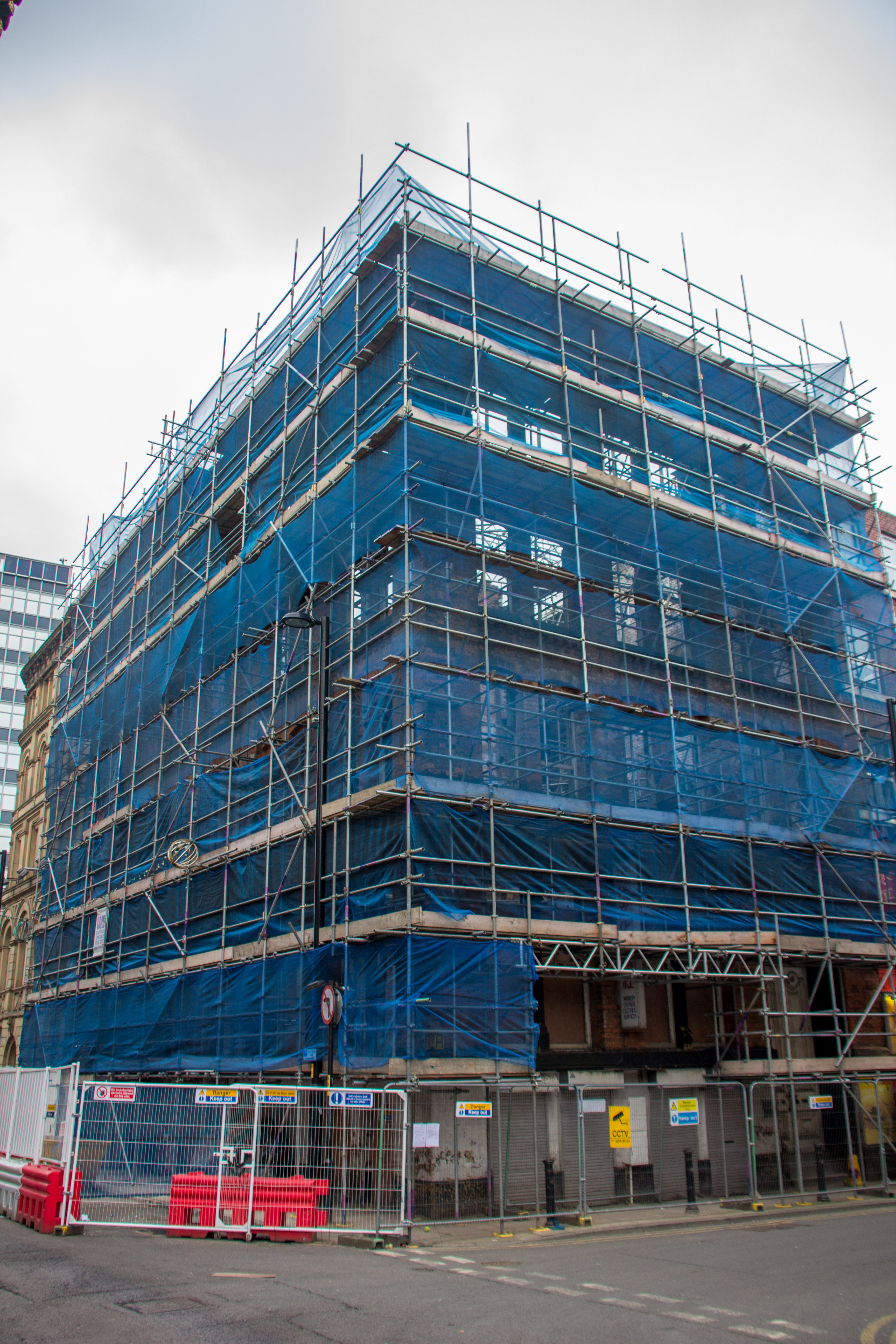 At Manchester, UK